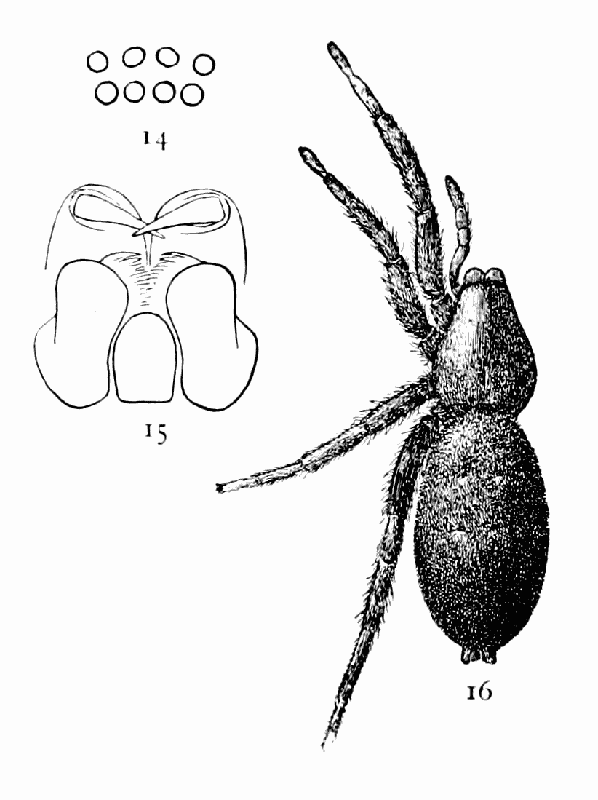 Zelotes latreillei Prosthesima atra.—16, female enlarged four times. 14, eyes seen from in front. 15, maxillæ, labium, and ends of mandibles from below.